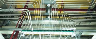 Process Piping Installation